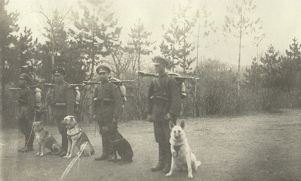 Bulgaria